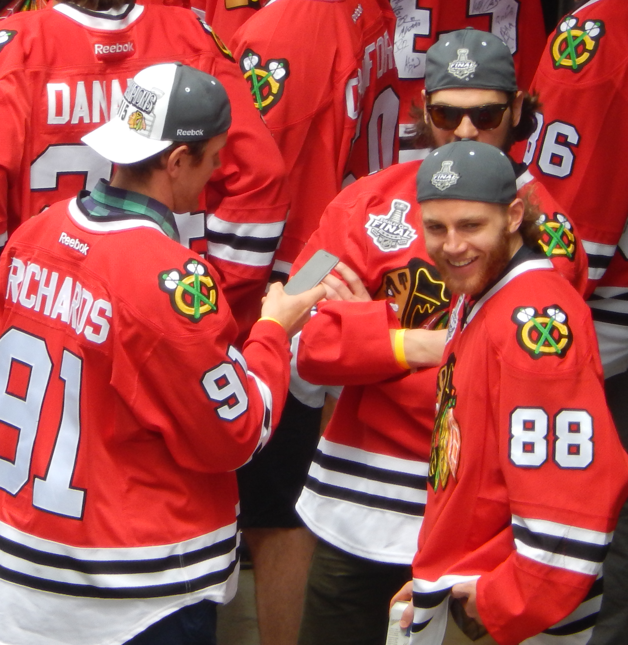 Brad Richards, Daniel Carcillo, Patrick Kane